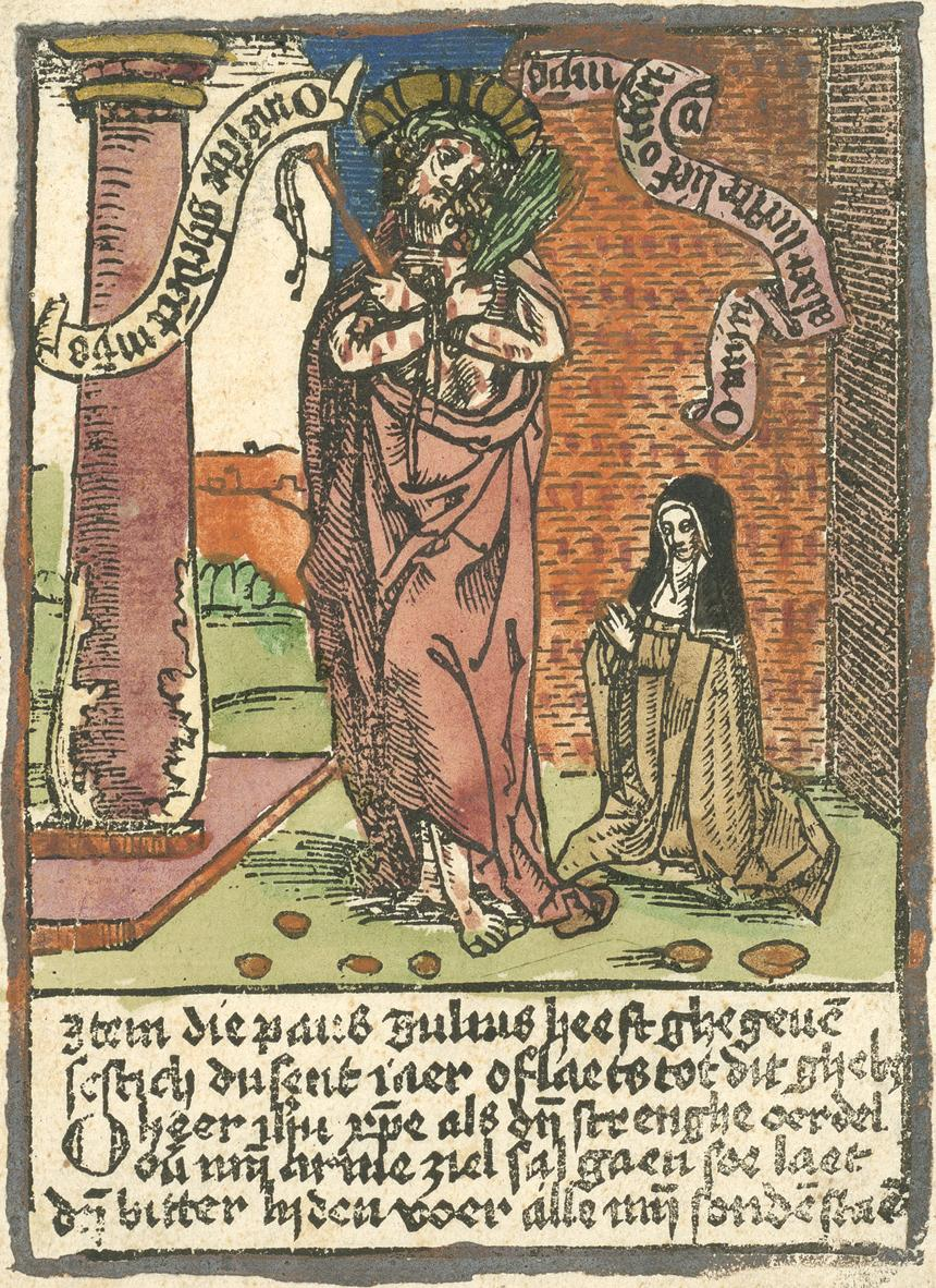 Man of Sorrows and Saint Bridget. Woodcut, hand coloured. 116 × 85 mm. Amsterdam, Rijksmuseum Amsterdam (inv.no. RP-P-1908-1937). Ceded to the Rijksmuseum Amsterdam in 1908.